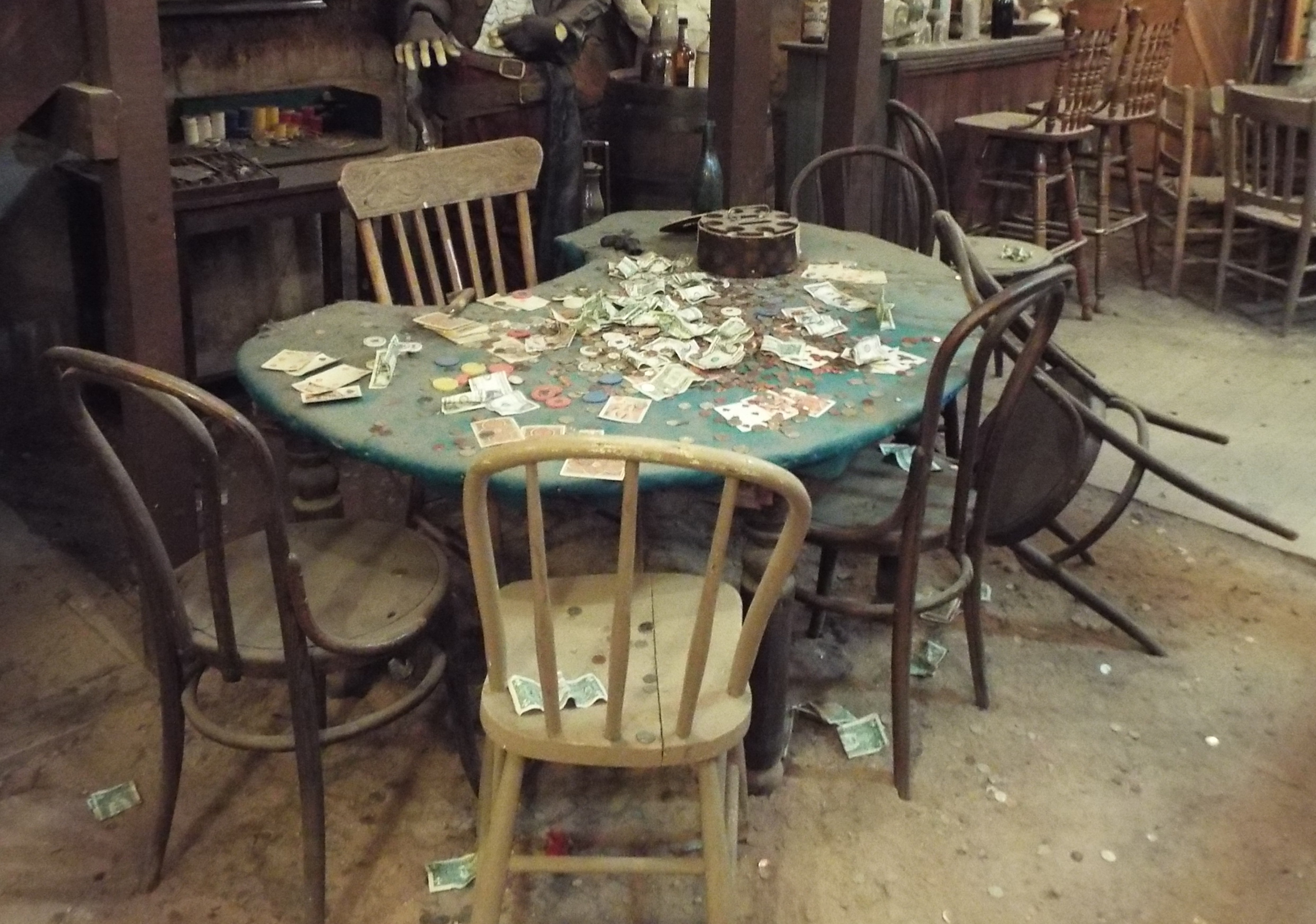 The historic poker table in the basement of the Bird Theater in Tombstone, Arizona where the longest poker game in history was played from 1881 to 1890. [1]